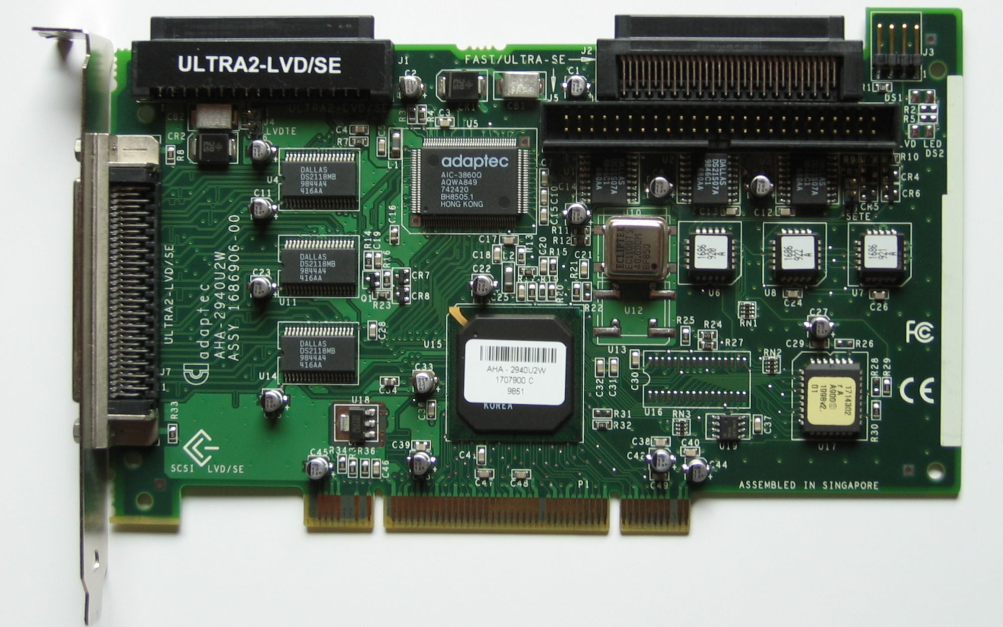 Adaptec AHA-2940U2W